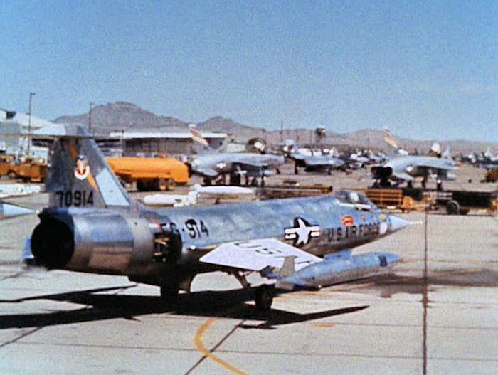 F-104C Starfighter 57-0914 photographed at George AFB, California, 435th TFS, 479th Tactical Fighter Wing, 1965